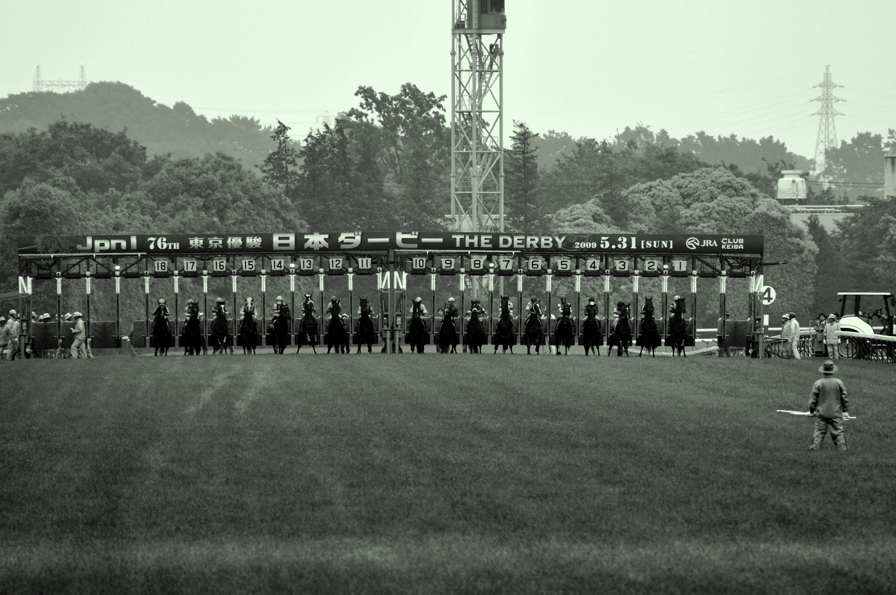 The 76th Tokyo Yūshun championship at the Tokyo Racecourse.